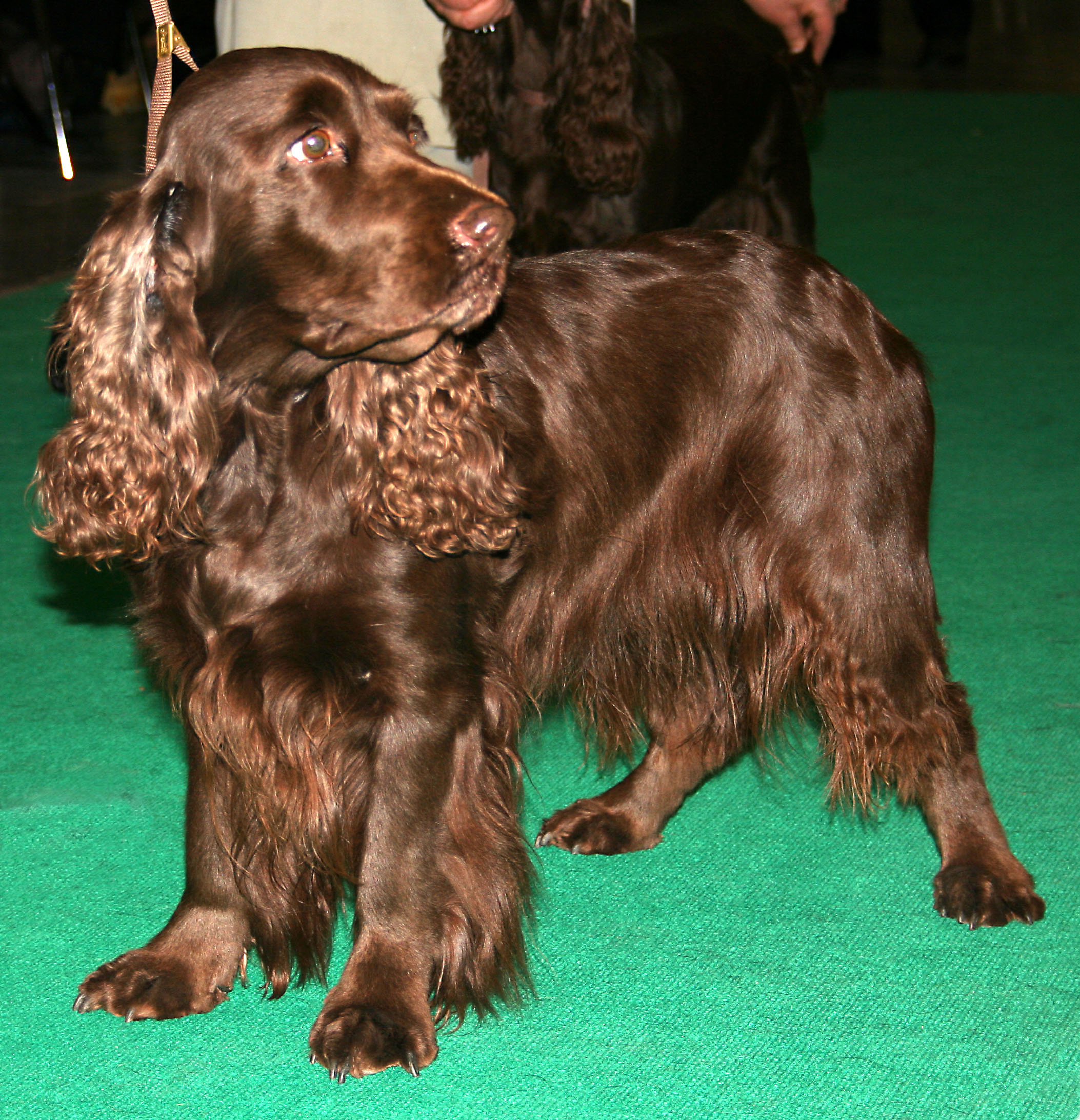 Field Spaniel during World Dog Show in Poznań, Poland.